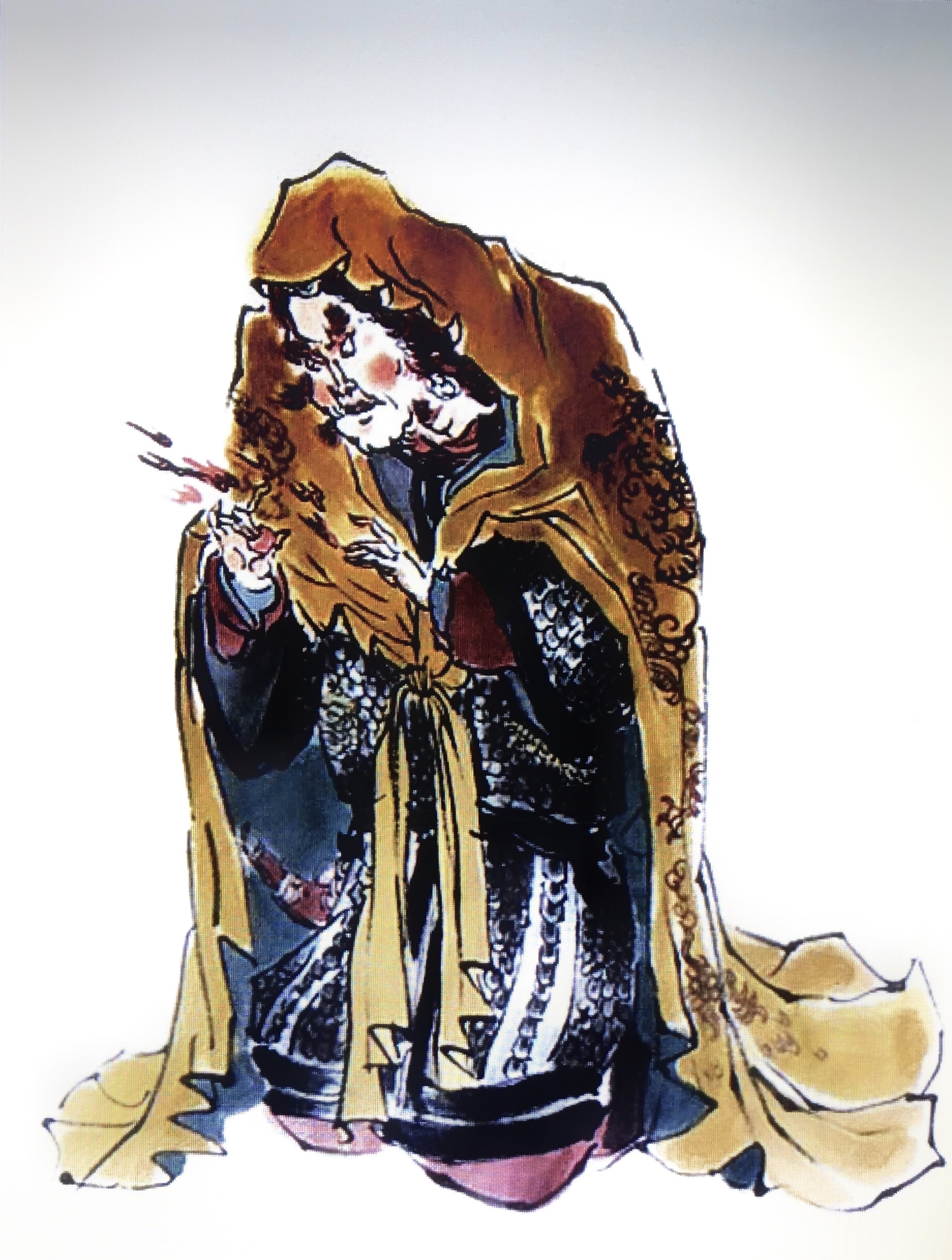 Kui Mulang (Chinese: 奎木狼; literally: 'Wood Wolf of Legs') is a star deity and one of the 28 Mansions in Chinese traditional religion.